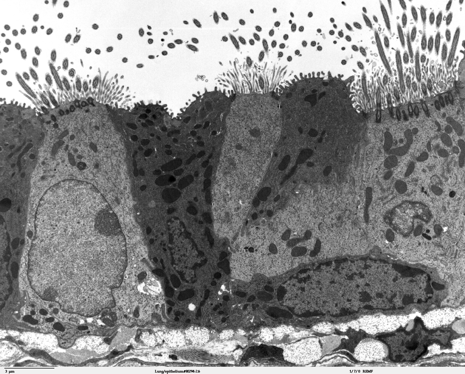 Transmission electron microscope image of a thin section cut through the bronchiolar epithelium of the lung (mouse), which consists of ciliated cells and non-ciliated cells (called Clara cells). Image shows the ciliary microtubules in transverse and oblique section. In the cell apex are the basal bodies that are the anchoring sites for the ciliary axonemes. Note the difference in size and shape between the microvilli and the cilia. JEOL 100CX TEM